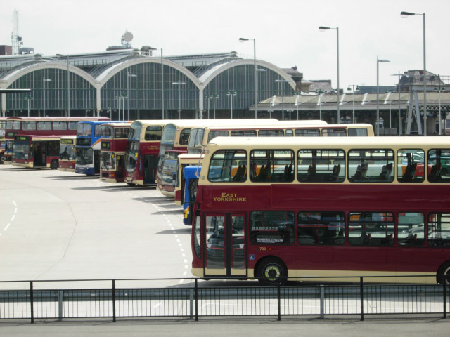 Paragon Transport Interchange An impressive line up of buses - some in the blue, red, white and orange colours of Stagecoach, but most in East Yorkshire's more traditional maroon and cream - parked with Paragon station's trainshed behind.